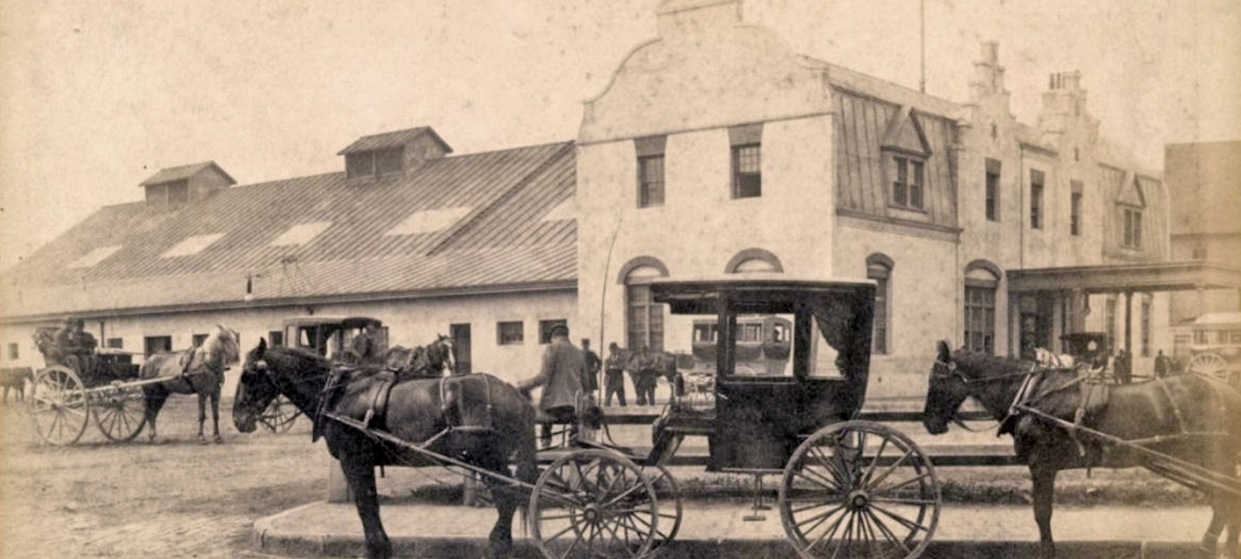 Station built around 1872 by North Shore Railway which, in 1875, transferred its properties to Quebec Province Government which formed the Quebec, Montreal, Ottawa & Occidental Railway; the rails reached Montreal at the end of 1877 and the railway is sold to the Canadian Pacific Railway in 1885 witch adds its name on the walls of the station. Actual Palais Station is built in 1915 by CPR.